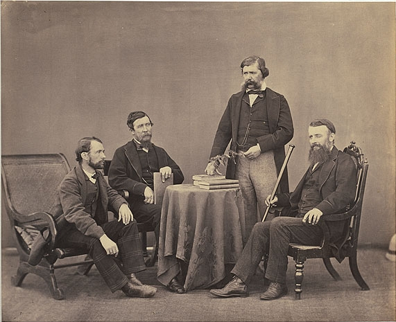 Photograph of William Jameson (Suptd. Tea plantations), Thomas Jerdon, John Lindsay Stewart (standing) Conservator of Forests, Punjab and Hugh Cleghorn taken in Lahore (for identifications see Noltie H. 2011 A botanical group in Lahore, 1864. Archives of natural history. 38(2):267–277